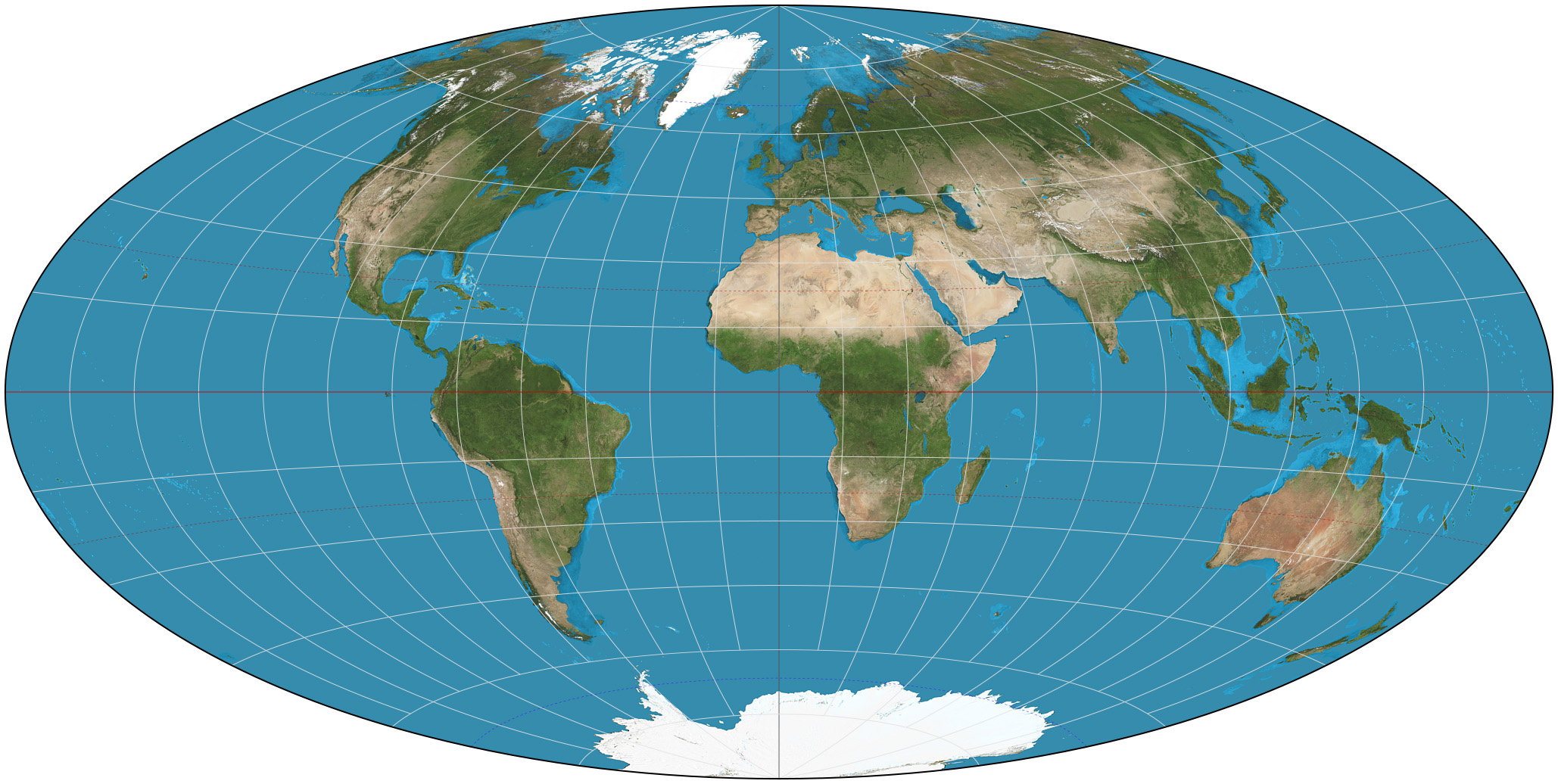 The world on Aitoff projection. 15° graticule. Imagery is a derivative of the Blue Marble from summer month composite with oceans lightened to enhance legibility and contrast. Image created with the Geocart map projections software.